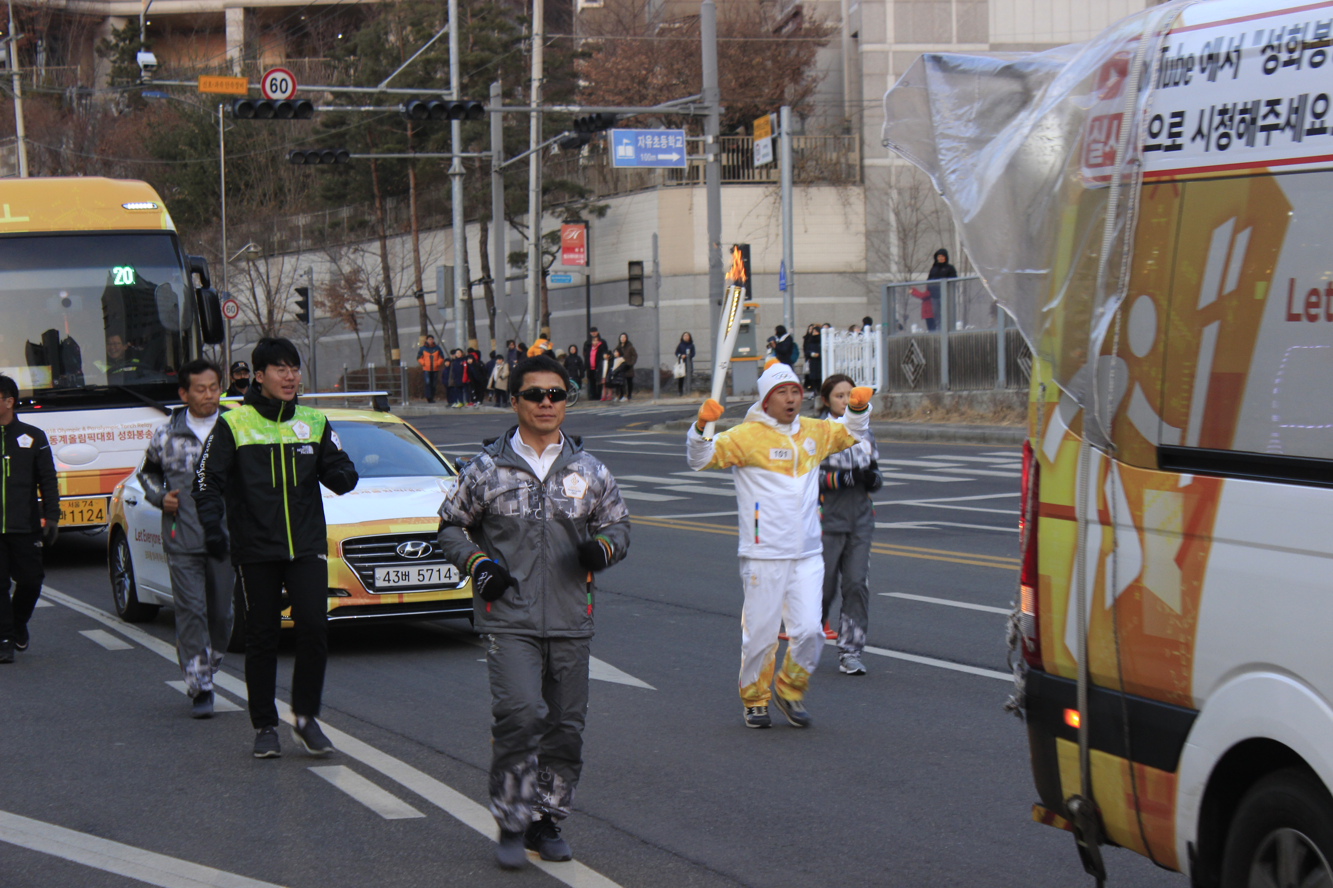 2018 Winter Olympics torch relay in Paju Geumchondong, 2018 - 1 - 19